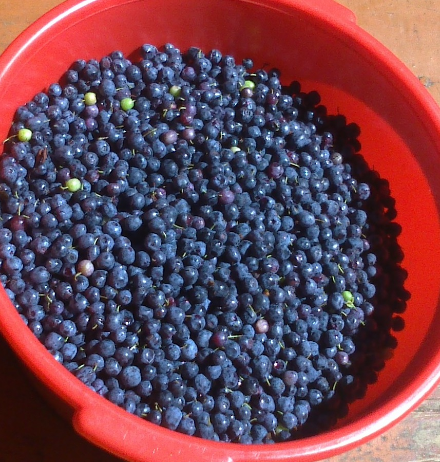 Blueberries, gathered in the mountains of Eastern Sayan